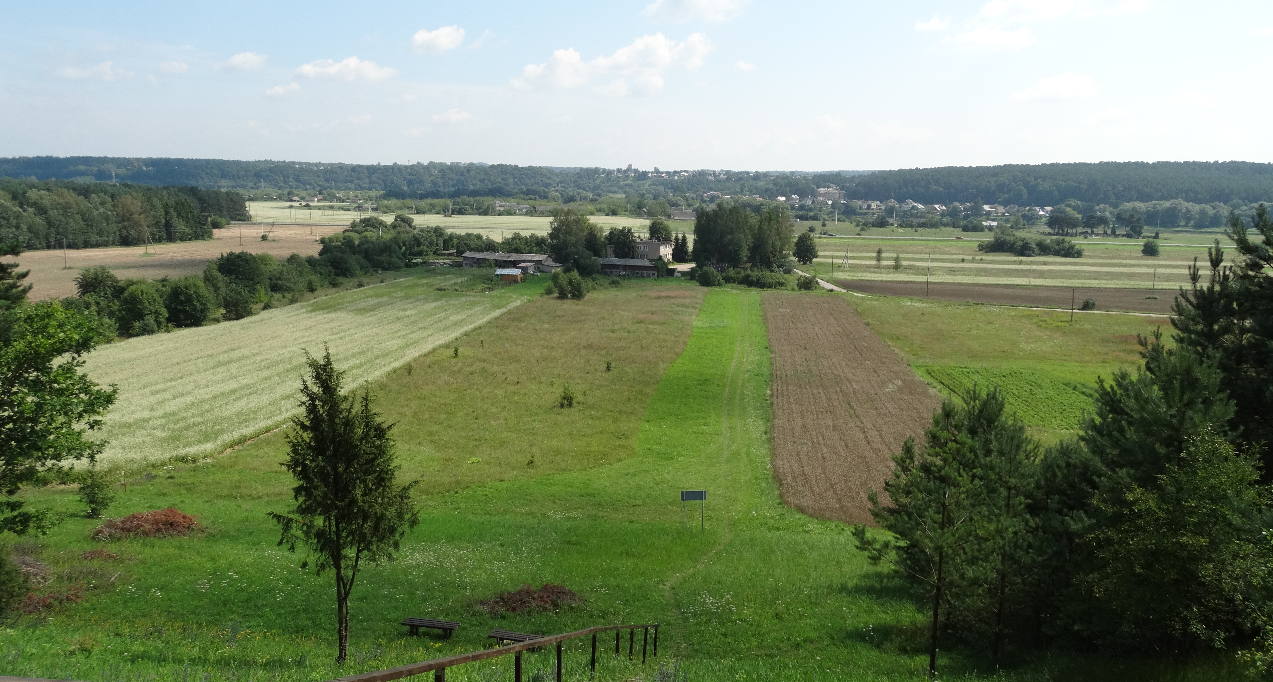 Lepšiškiai hillfort, Kaunas district, Lithuania